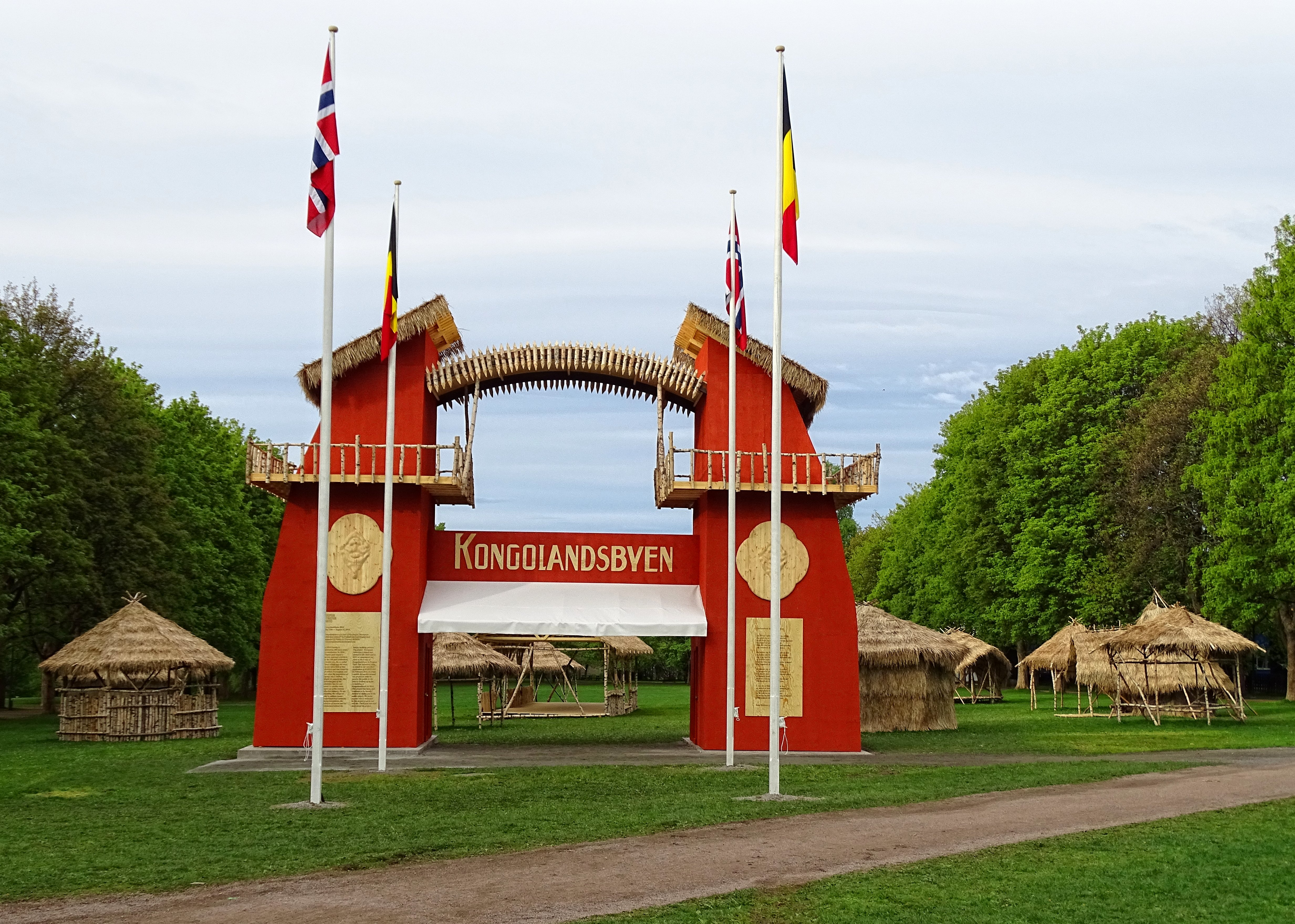 As part of the 100 year celebration of the Norwegian constitution in 1914, a large exhibition took place in the Frogner park in Oslo, Norway. One of the attractions was a "human zoo", the Congo village, meant to give Norwegians of that time an impression of what life in Africa was like. One hundred years later, in 2014, Mohamed Ali Fadlabi and Lars Cuzner erected what is supposed to be a copy of the Congo village, at the very same spot in Frogner park, as an art project.